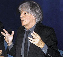 French philosopher and writer